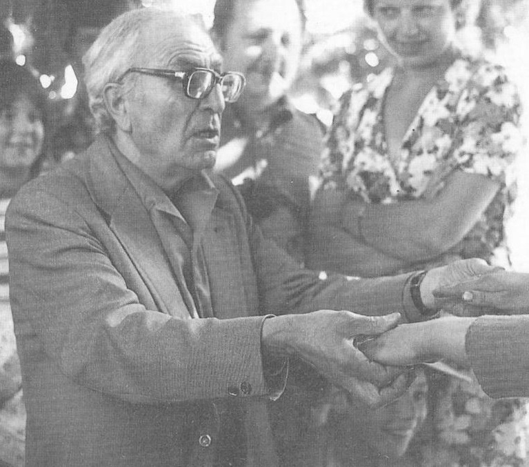 Renélys